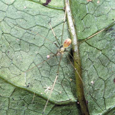 male Spermophora yanbauensis from Okinawa.